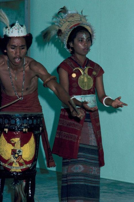 People at Kota Ambon (Taman Wisata) showing a dance of one of the Southeastern Maluku Islands